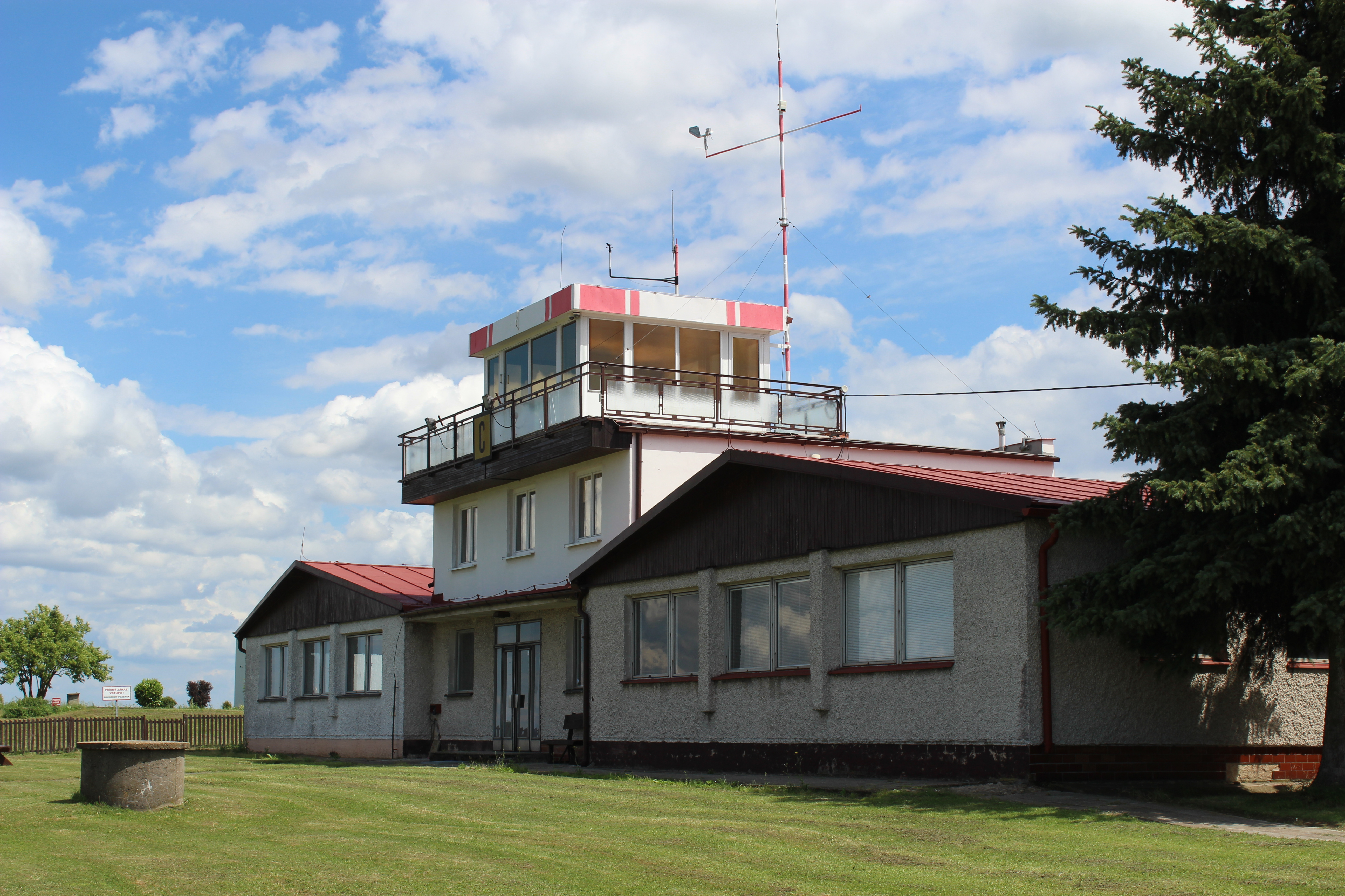 Bubovice Public Domestic Airport